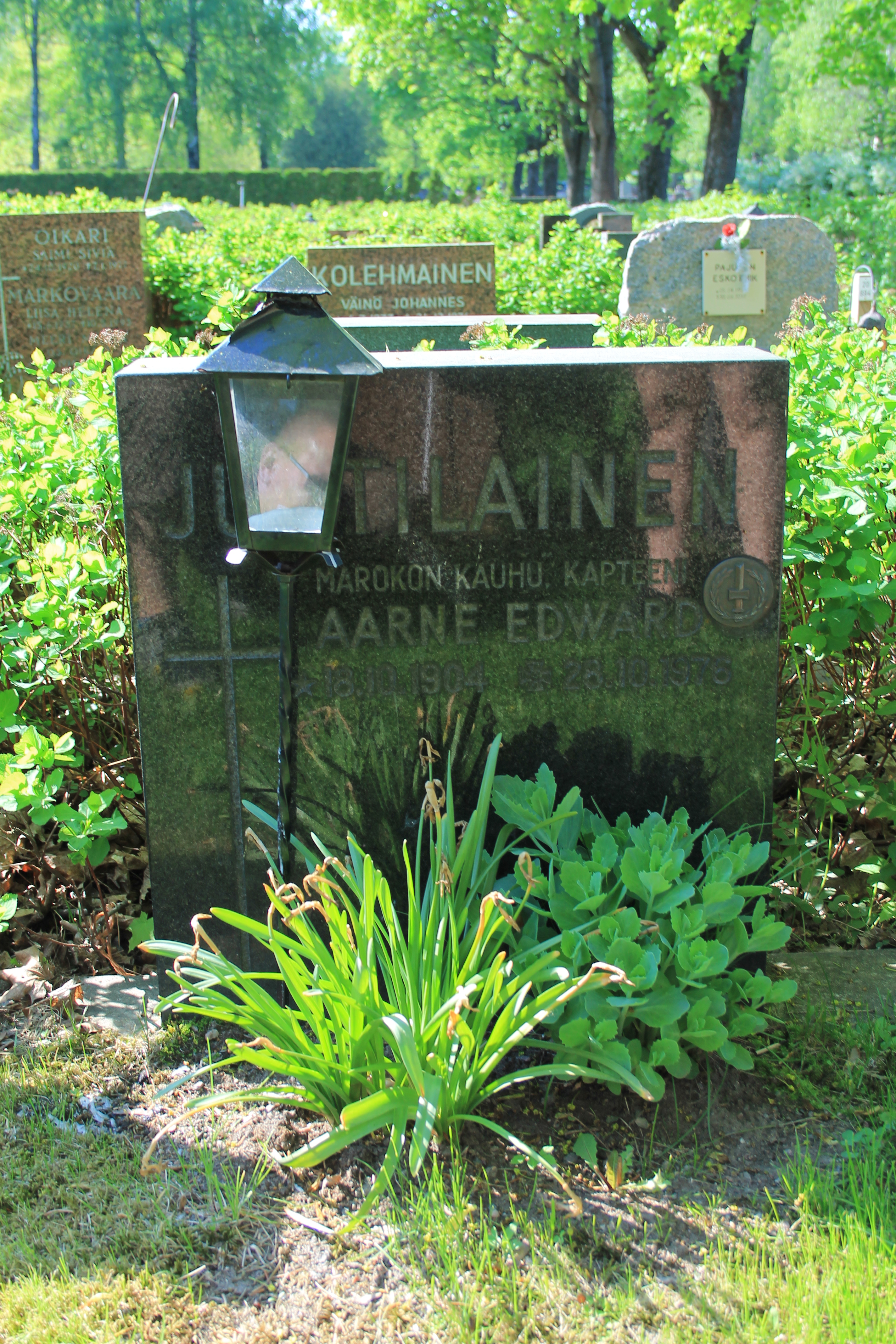 Gravestone of Aarne Juutilainen at the Malmi Cemetery.